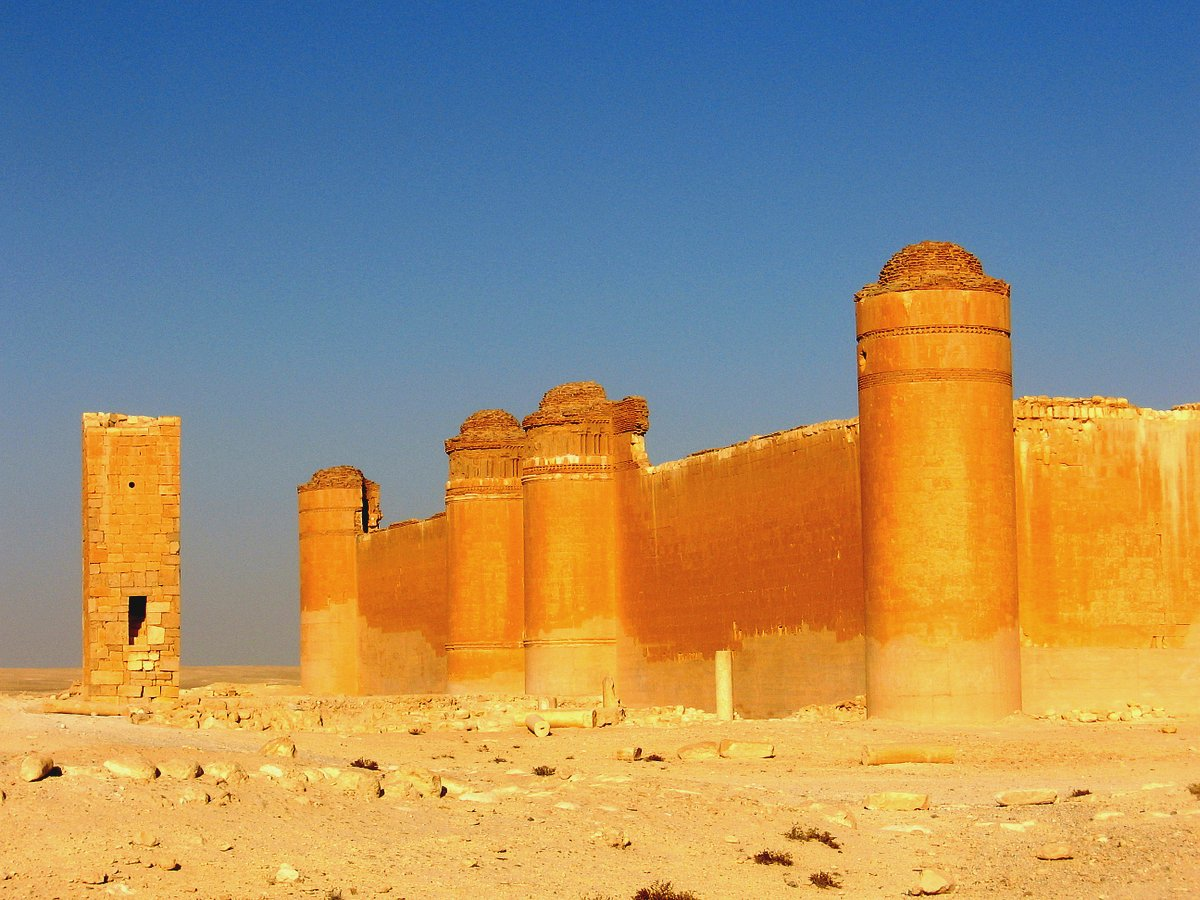 Omayad castle of Qasr al-Heir al-Sharqi, Syria.